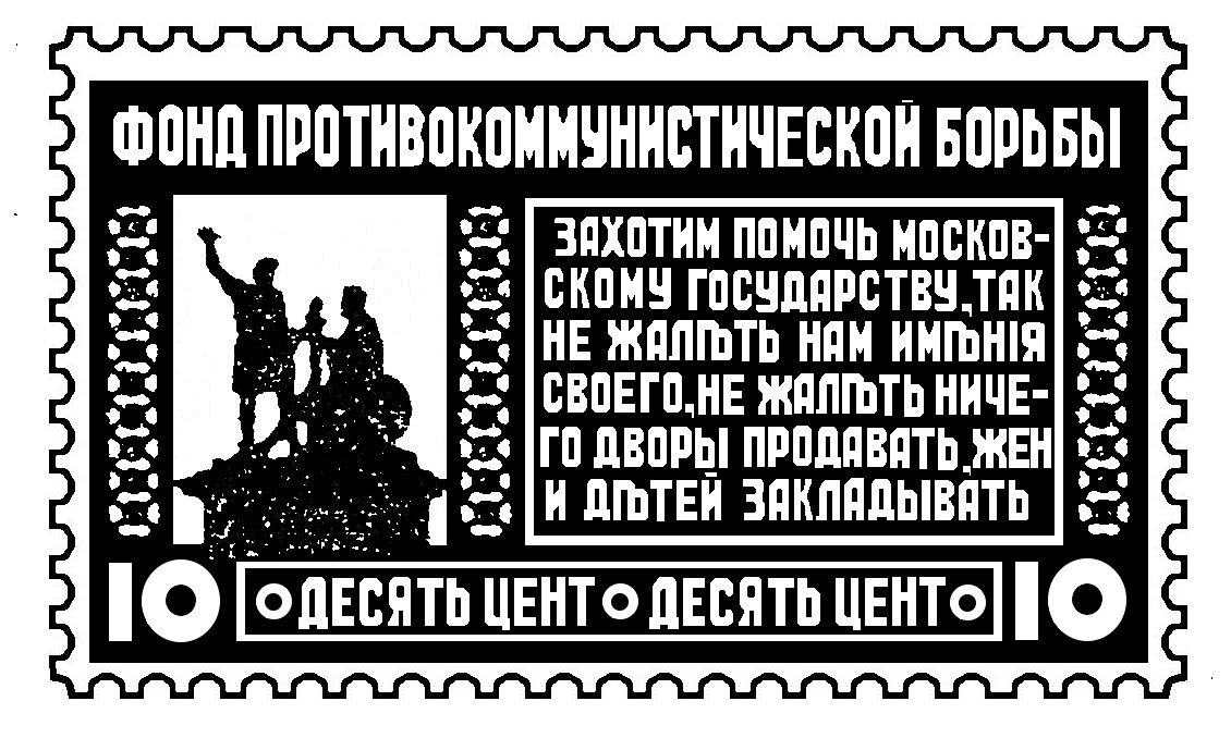 Stamp VFP (10 cents)